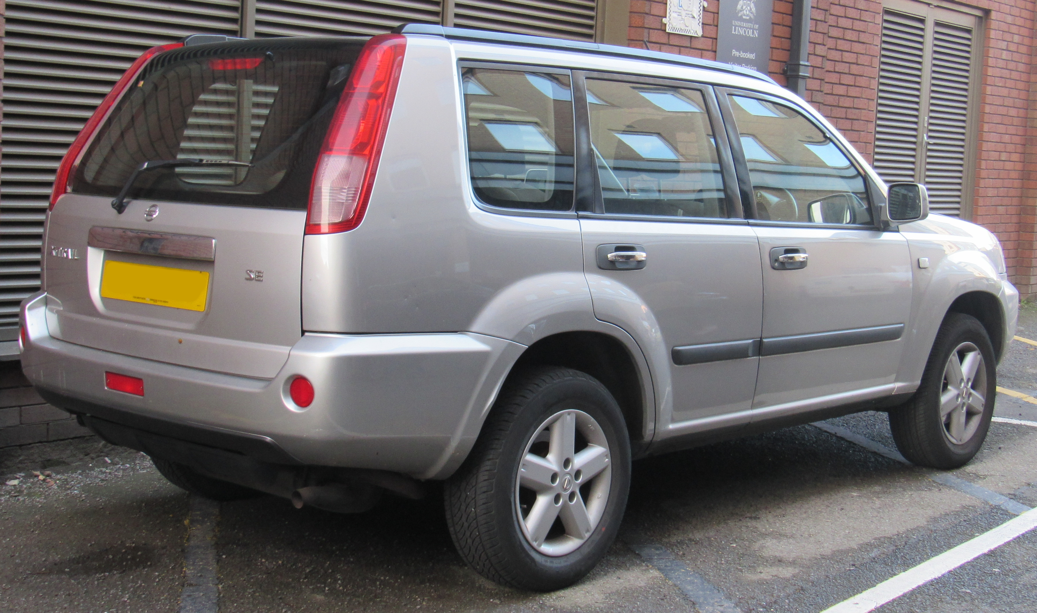 2005 Nissan X-Trail SE 2.0 facelift Rear Taken in Lincoln, England